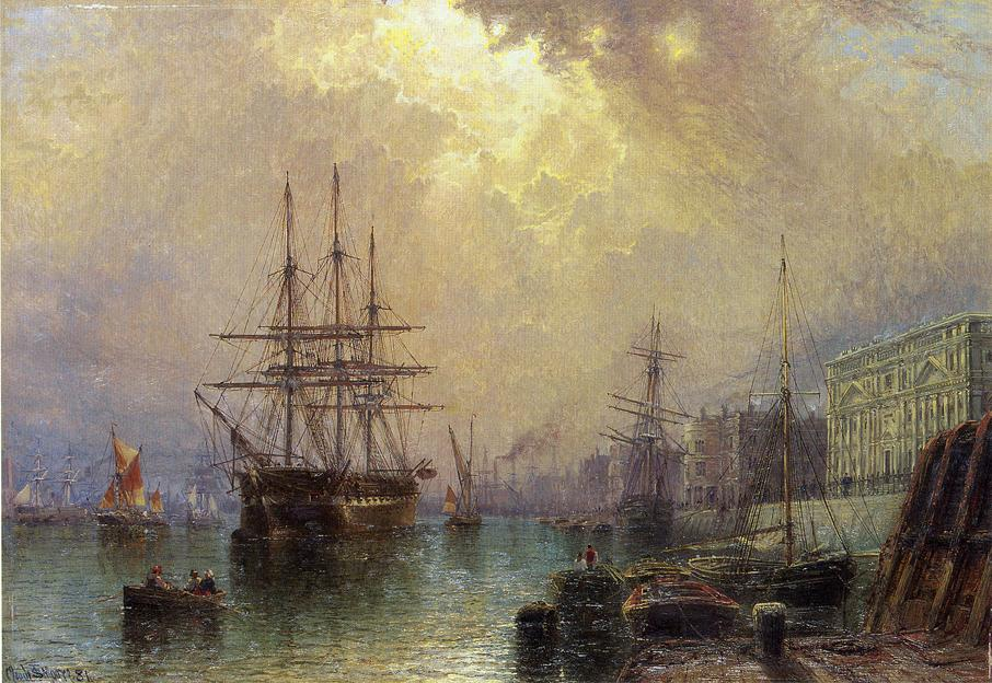 H.M.S. Warspale off Greenwich (1881, 13x19cm) by Claude Thomas Stanfield Moore